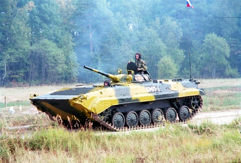 BMP-1 IFV in Russian service.